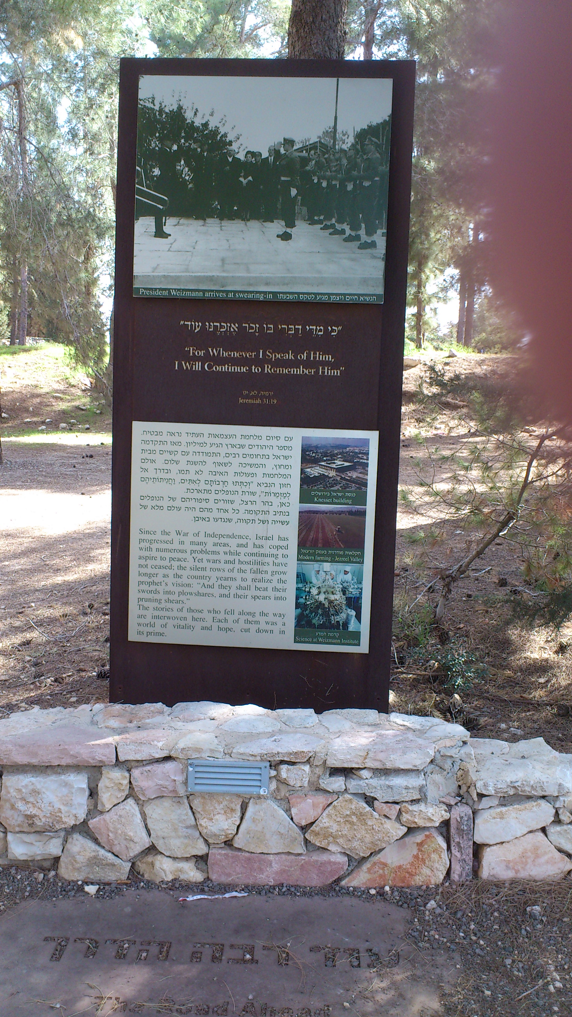 Mount Herzl - The Connecting Path